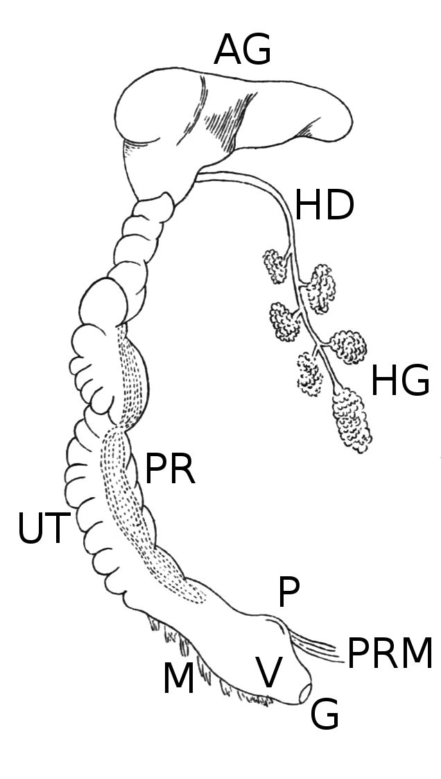 Drawing of the reproductive system of Paryphanta busbyi. HG = hermaphordite gland = ovotestis, HD = hermaphroditic duct, AG = albumen gland, UT = uterus, PR = prostate, P = penis, V = vagina, G = genital pore, PRM = penis retractor muscle M = muscular tissue connecting the oviduct with body-wall